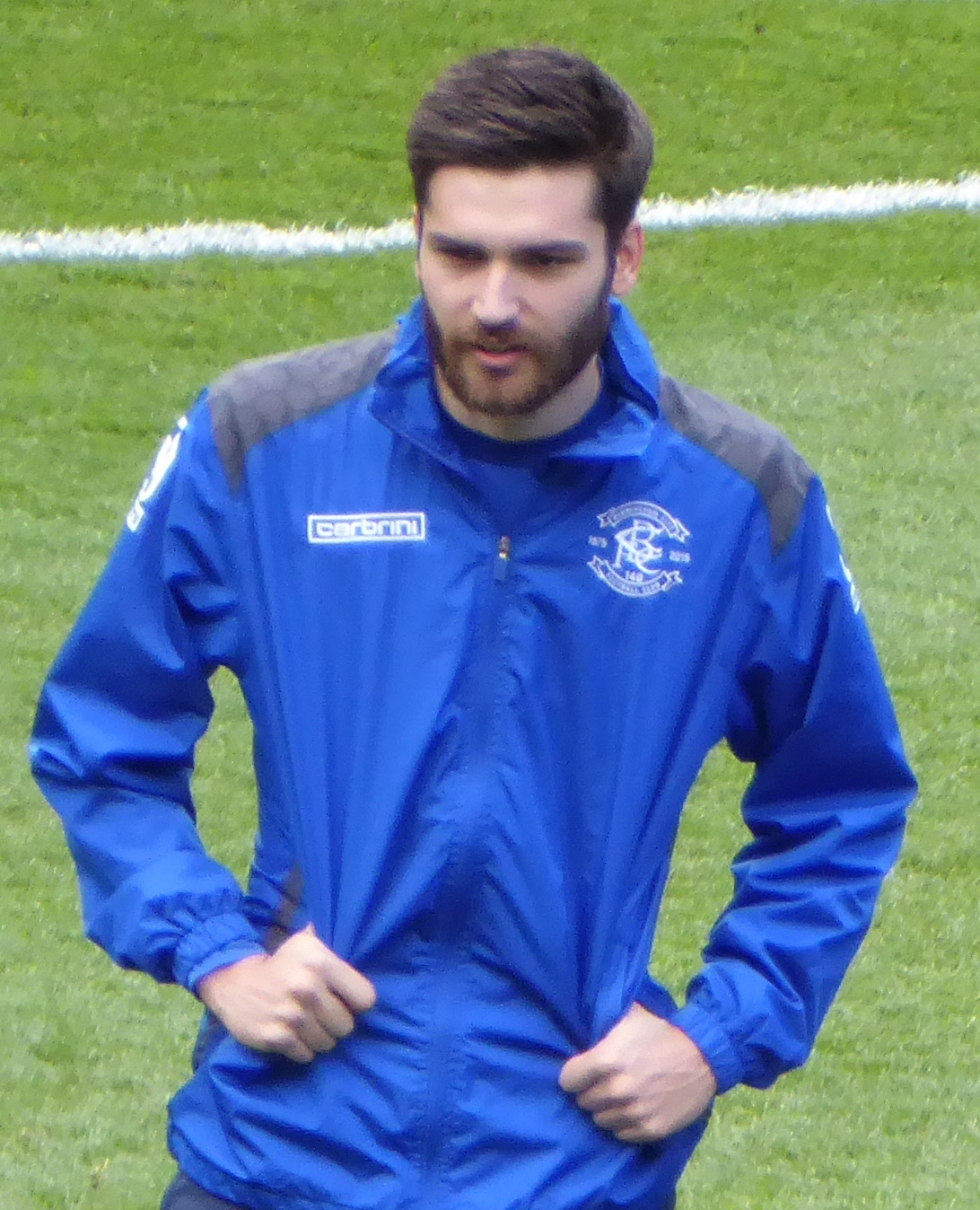 Jon Toral of Birmingham City Football Club warming up before a match in April 2016